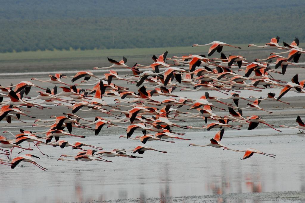 Flamingoes in Fuente de Piedra Lagune, Málaga, Spain